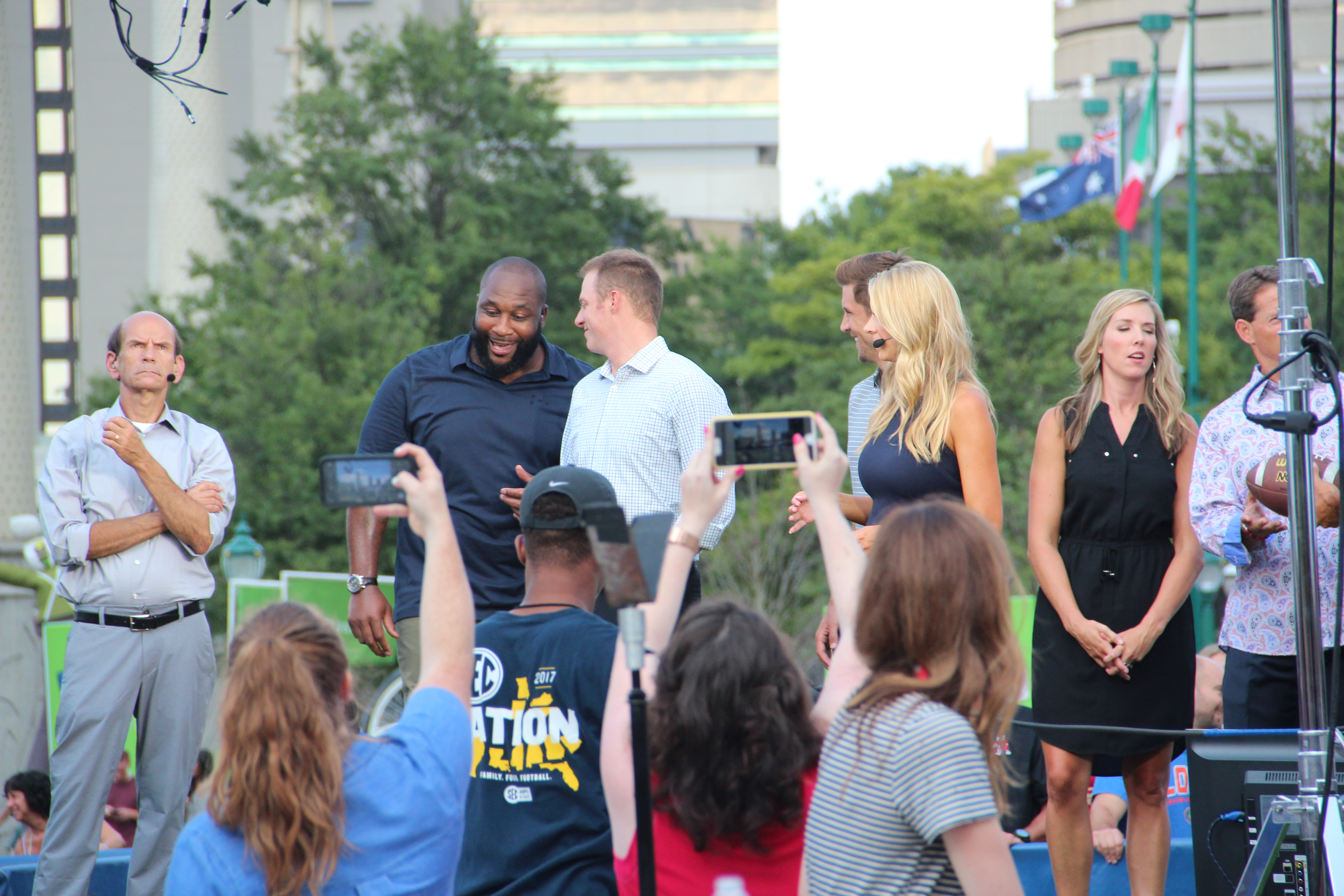 SEC Nation personalities at the 2018 SEC Football Kickoff Summerfest